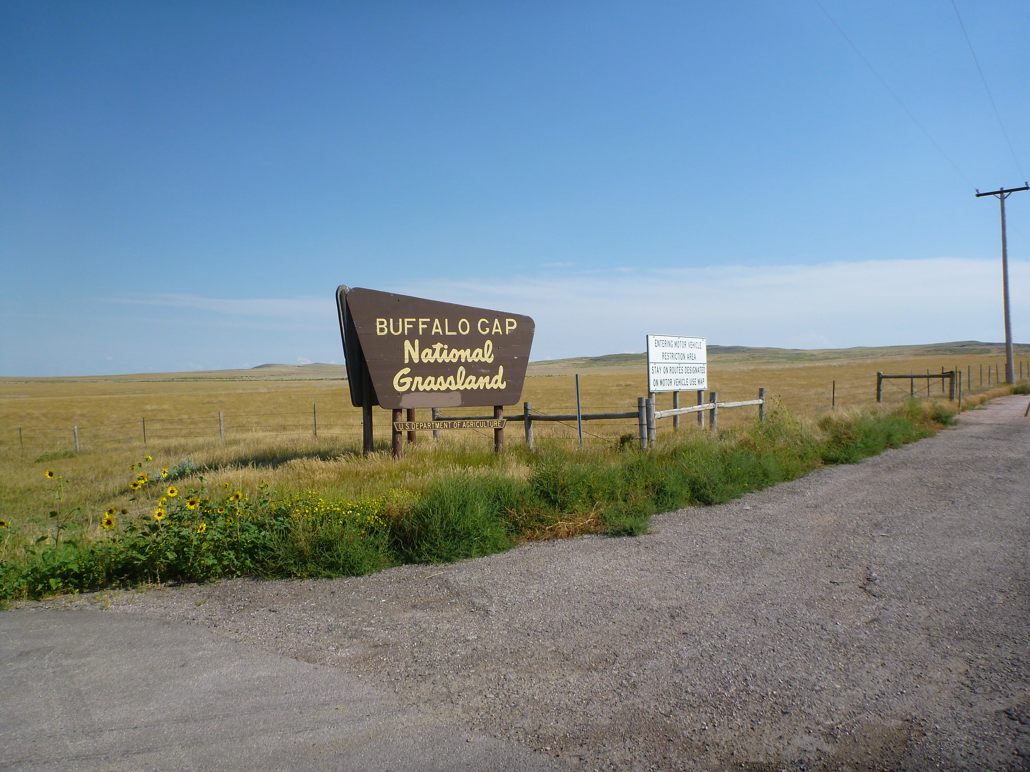 Entrance sign to Buffalo Gap National Grassland